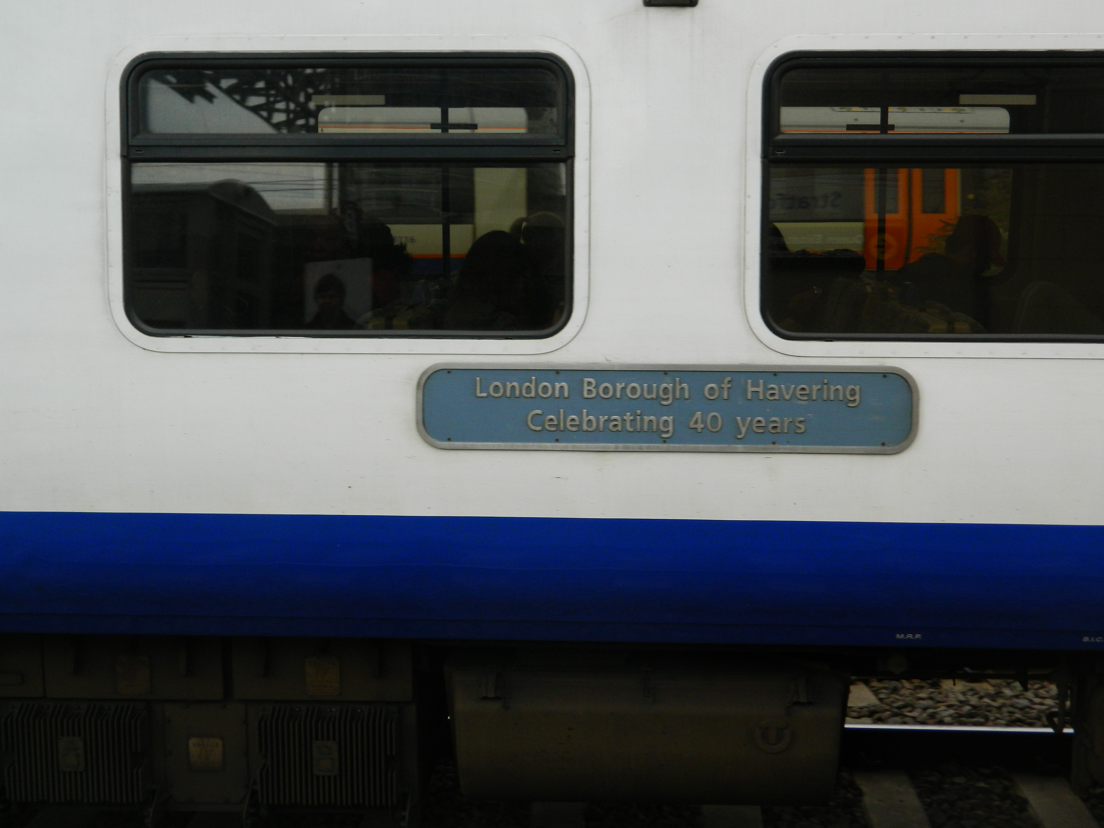 The nameplate of 315829, which reads 'London Borough of Havering Celebrating 40 years'.